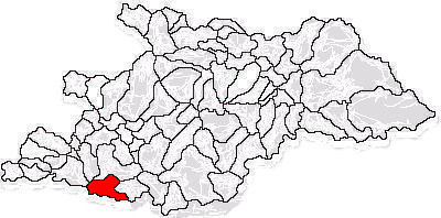 Location of Valea Chioarului in Maramureş County